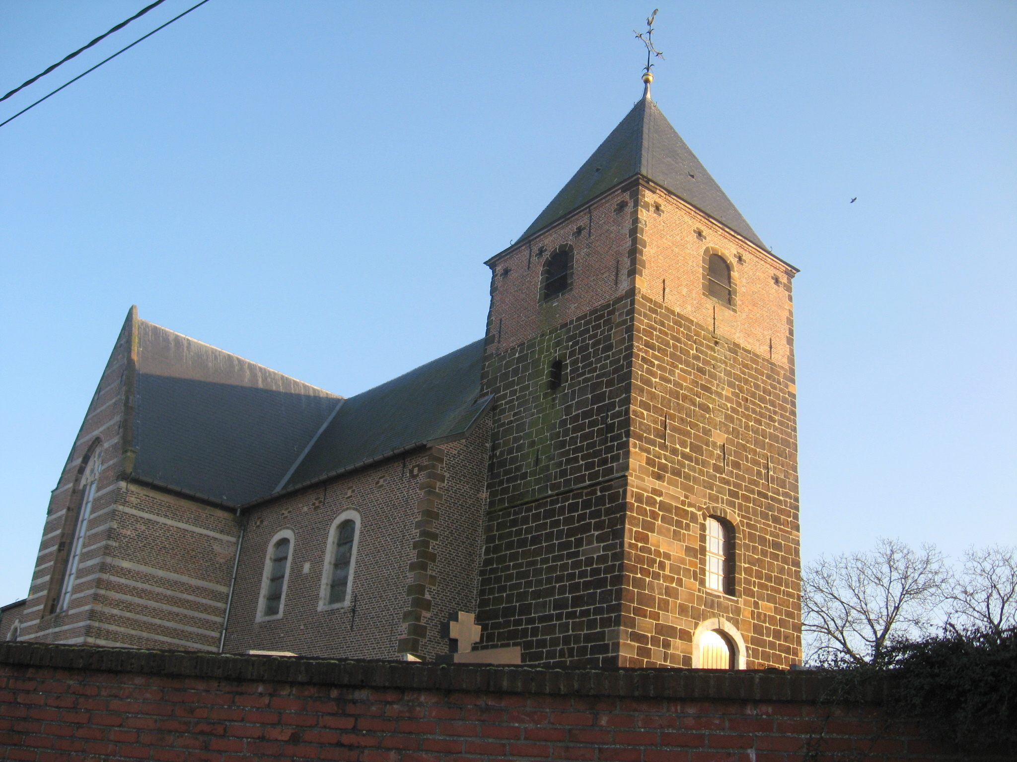 Church of Saint Martin in Tielt, Tielt-Winge, Flemish Brabant, Belgium